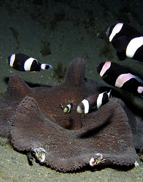 Saddleback anemonefish and their carpet anemone home from East Timor.